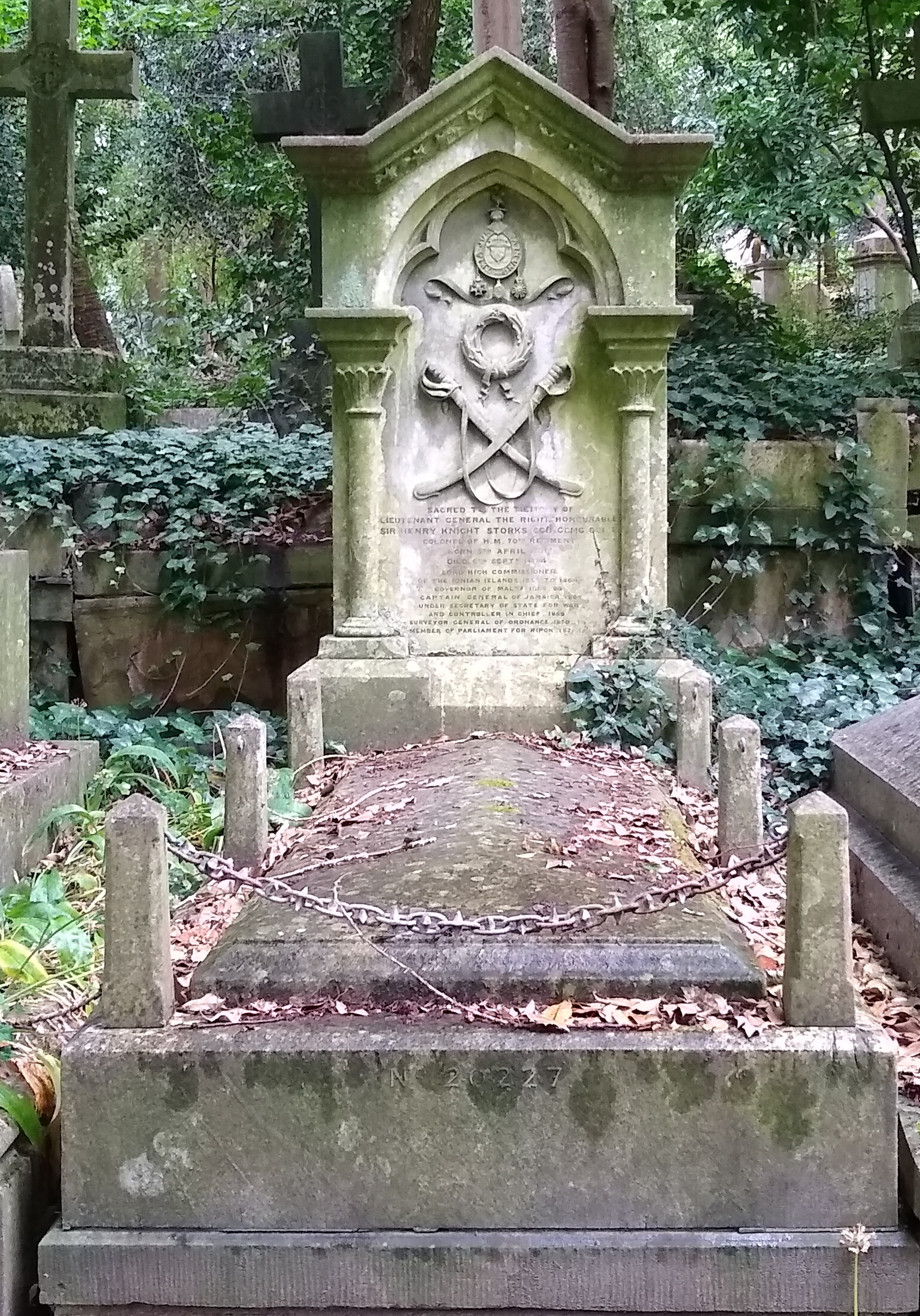 Sir Henry Knight Storks (1811-74) was a senior army officer and civil servant. He served in South Africa and Turkey, where he oversaw the withdrawal of British troops at the end of the Crimean War. Successively served as governor of the Ionian islands, Malta and Jamaica.